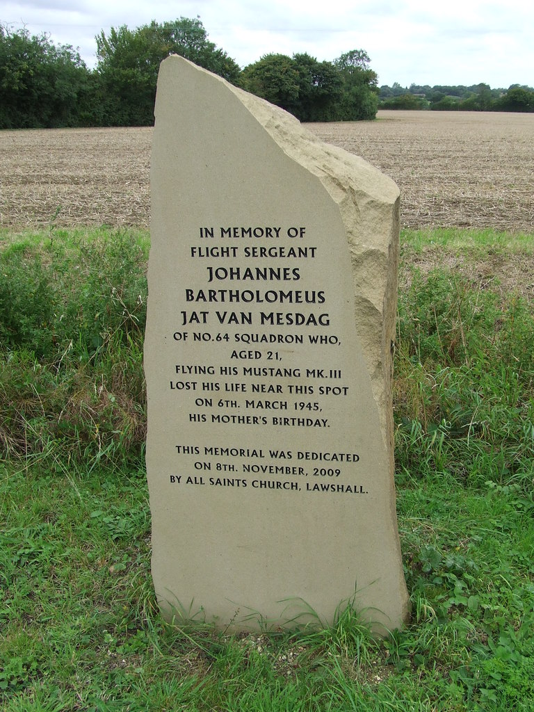 Memorial To Johannes Bartholomeus Jat Van Mesdag